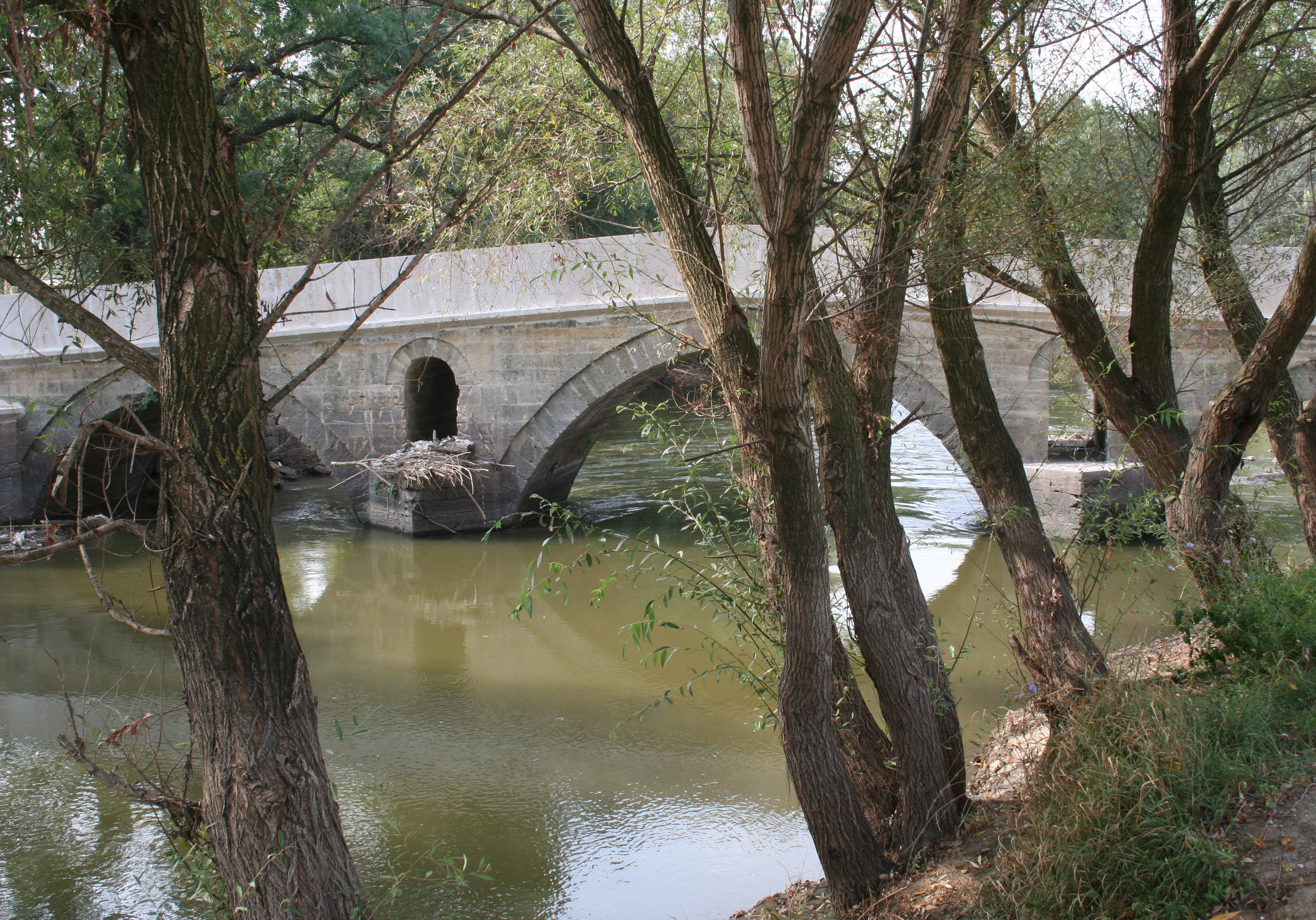 Tunca River